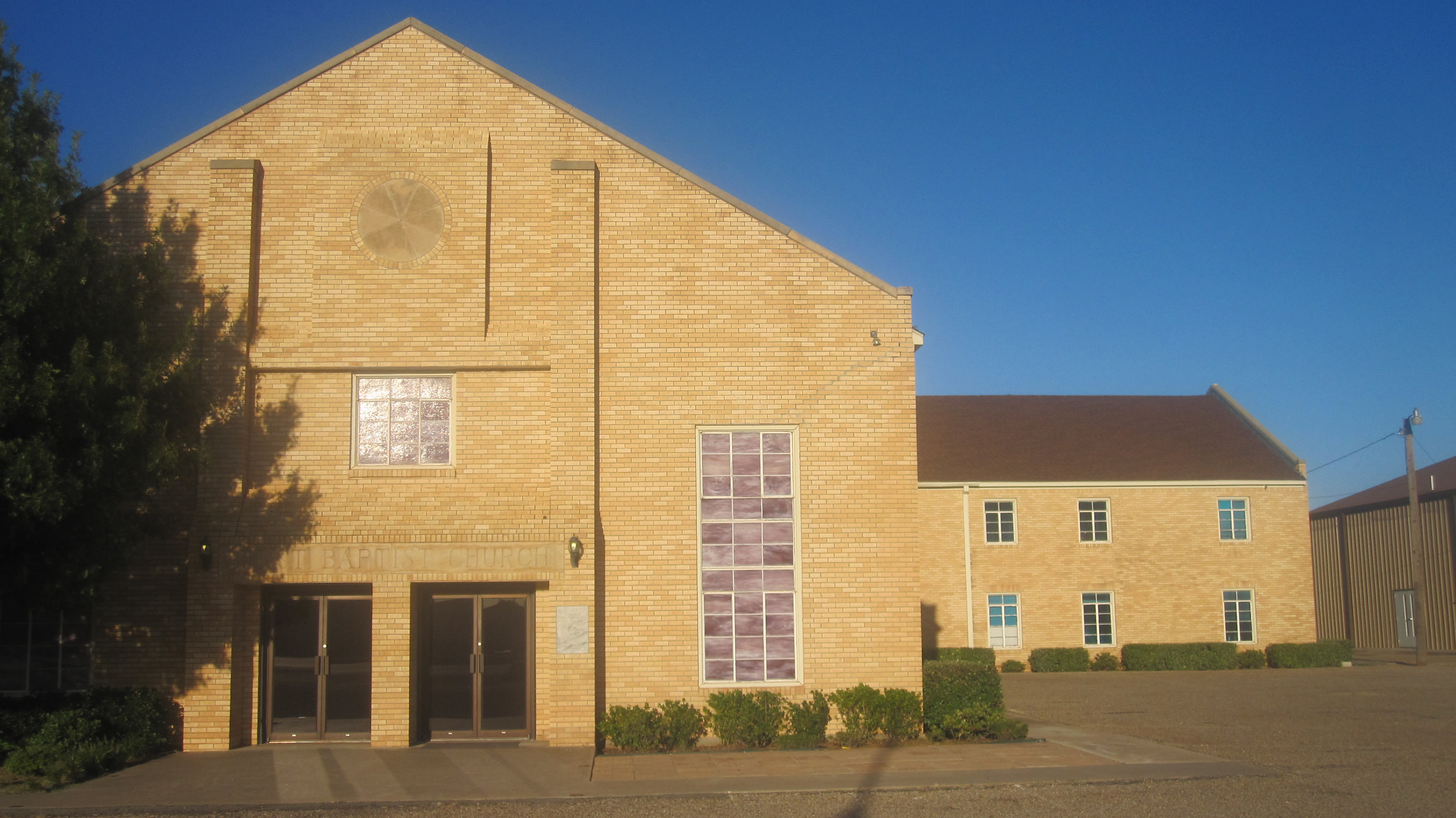 I took photo with Canon camera in Aspermont, TX.